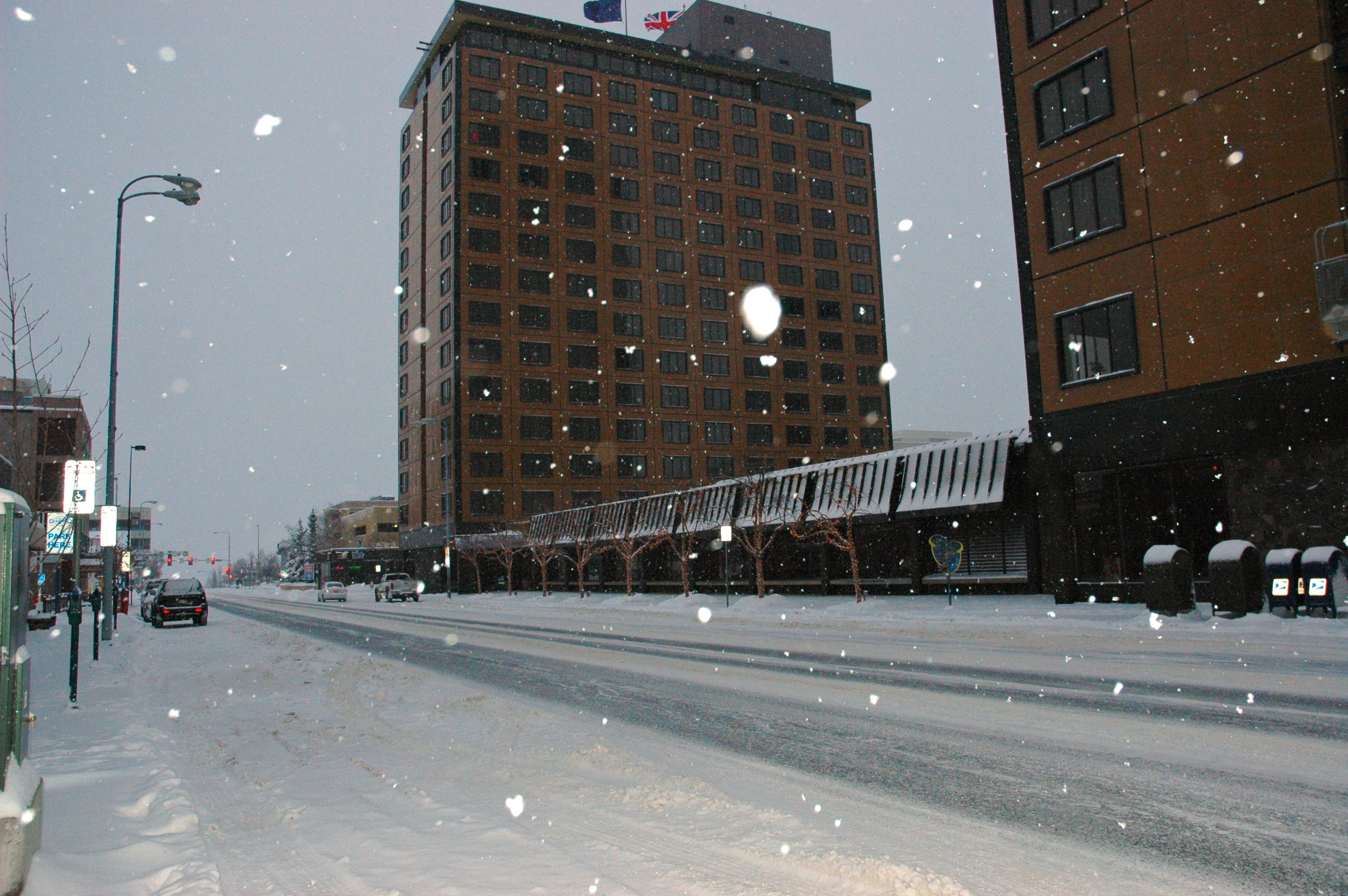 Snowing in Downtown Anchorage, looking down 5th Ave, Christmas Day, Alaska, USA8340